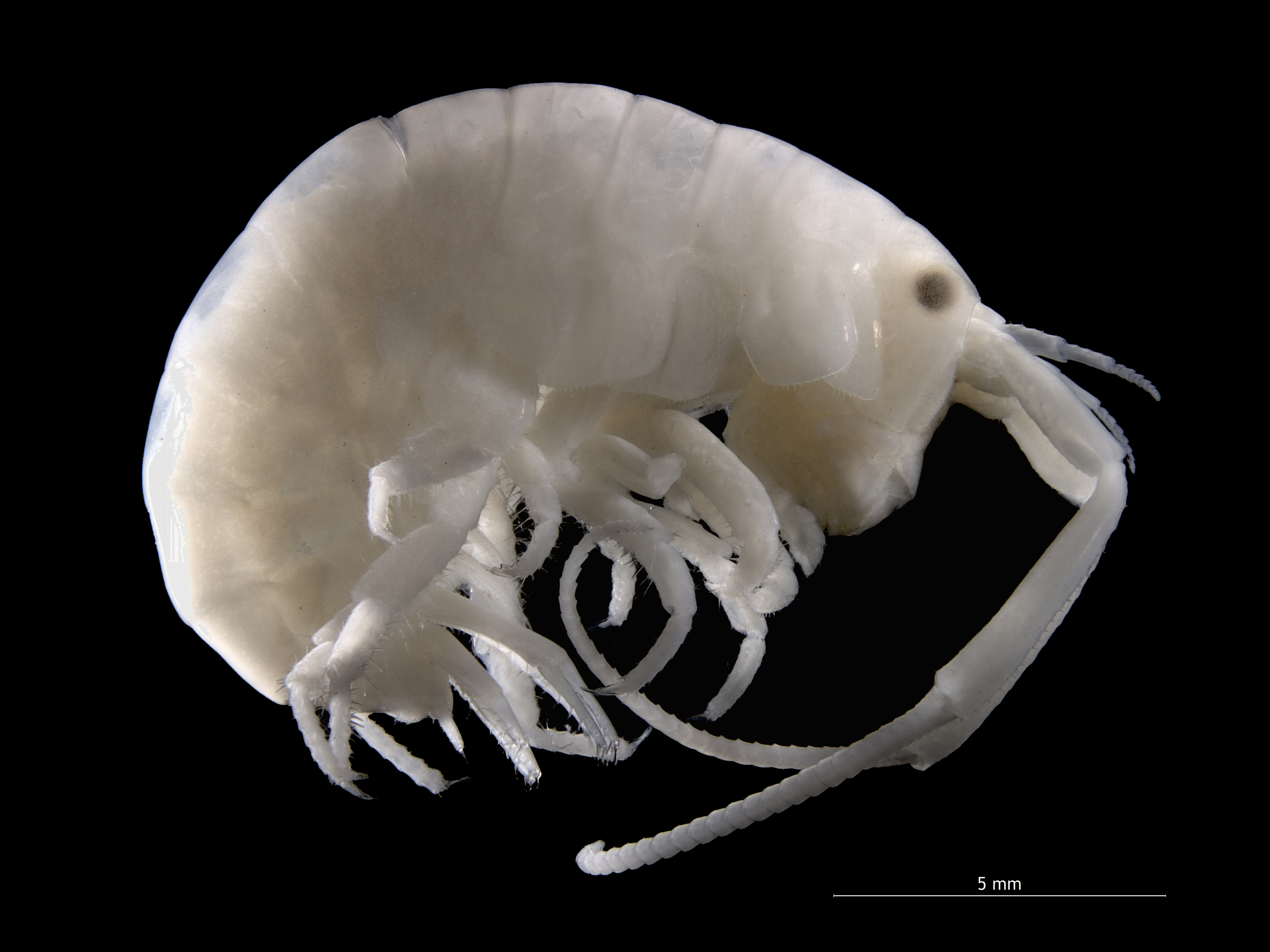 Sand hopper, sampled near Ambleteuse, France at 50°48′12.92″N 1°36′10.54″E / 50.8035889°N 1.6029278°E. Length: ~1.5 cm